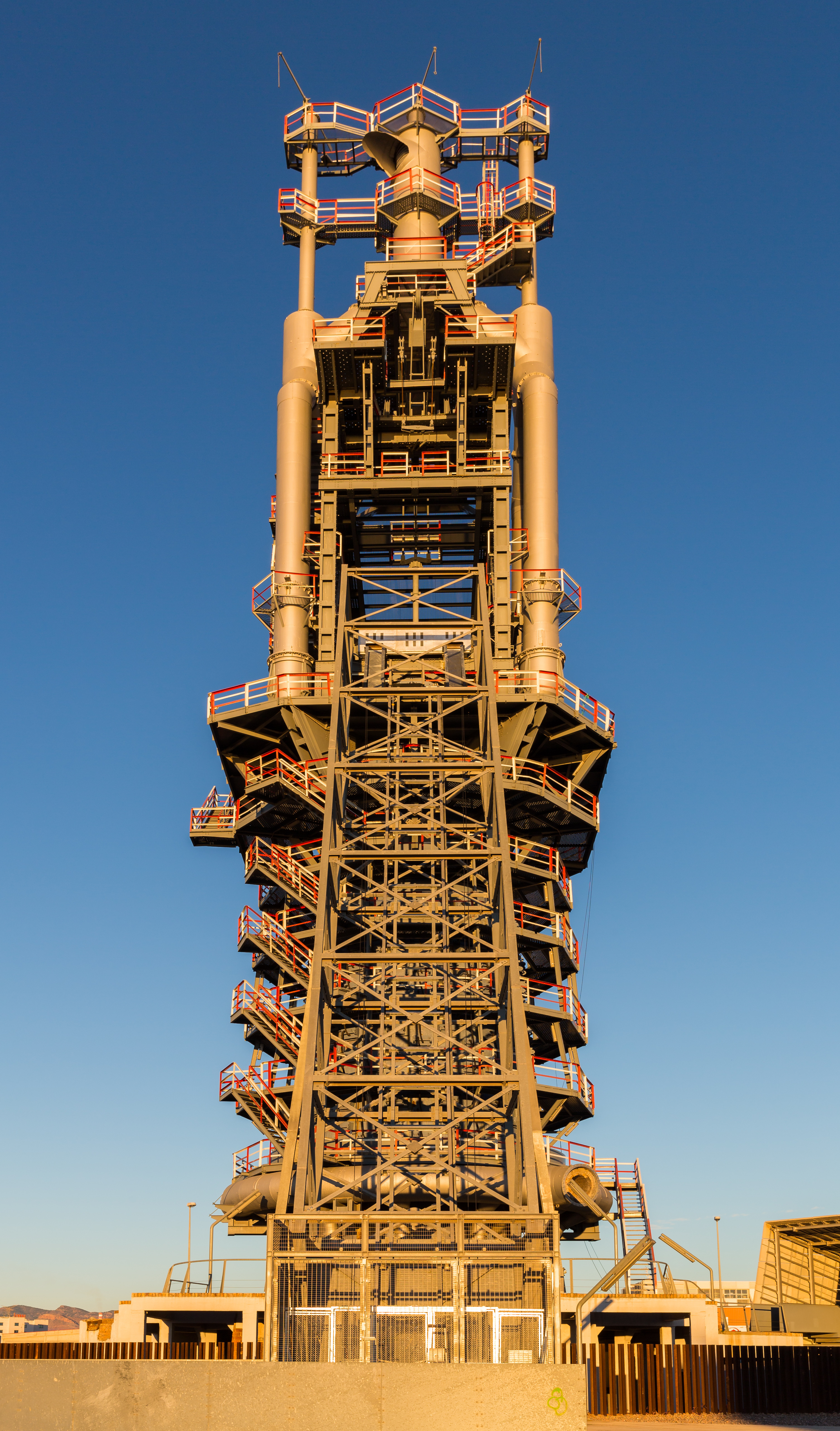 Blast furnace, Port of Sagunto, España